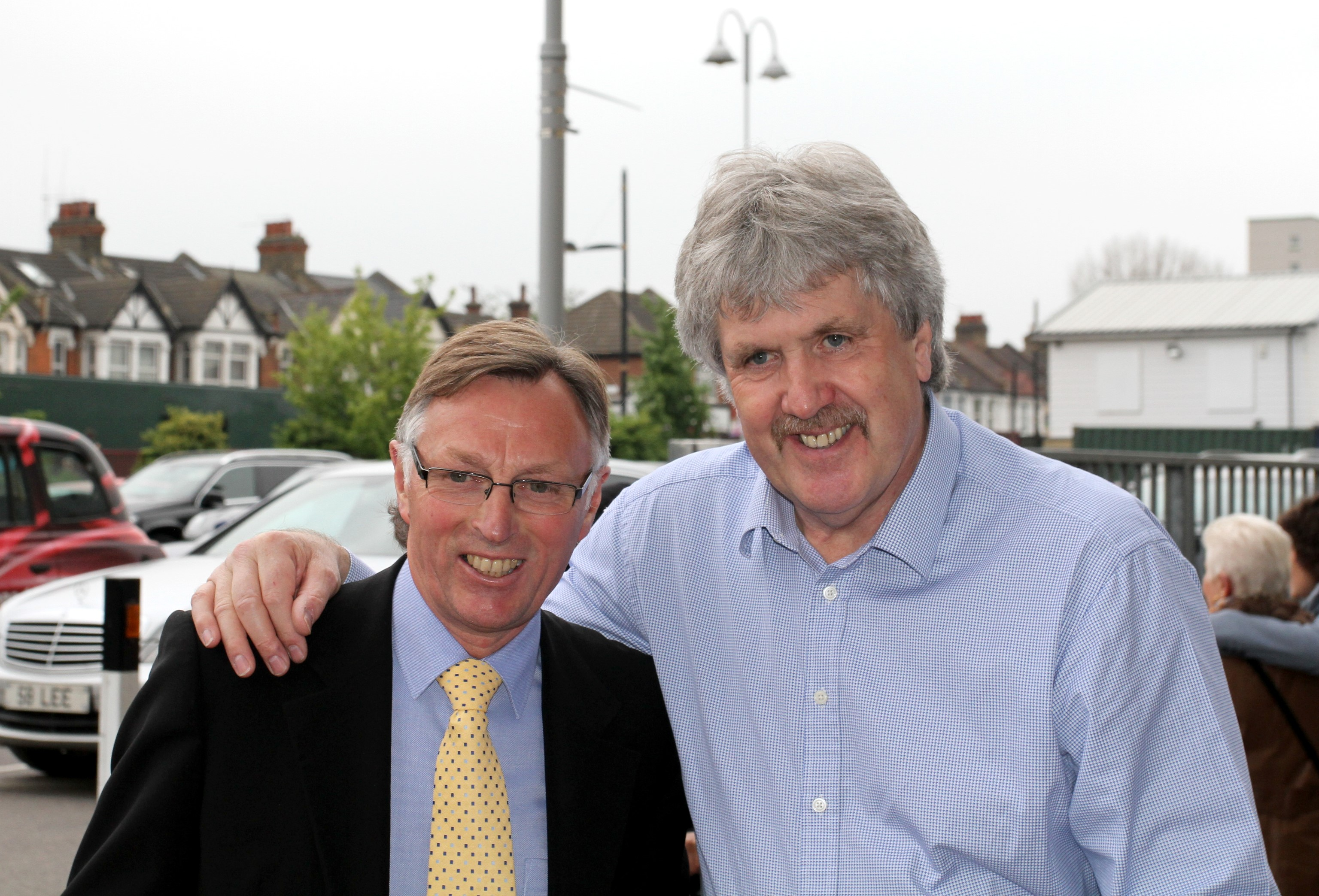 Alan Taylor and Phil Parkes at Upton Park 02 May 2015